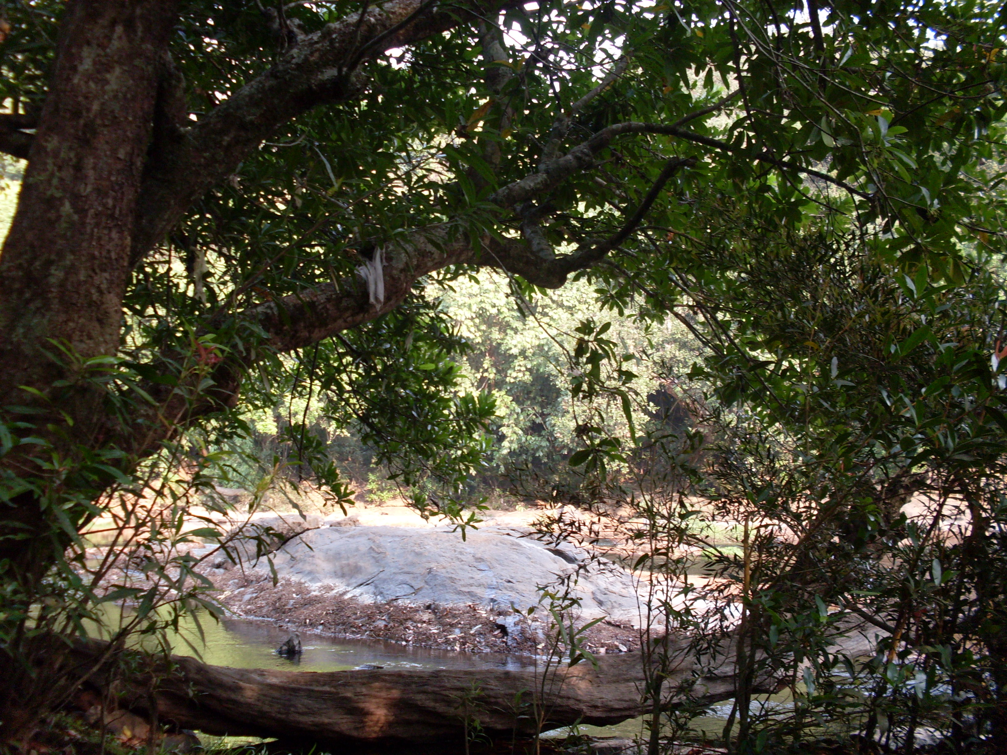 one of the small entry into the river kuppam in kerala of Eruvatty